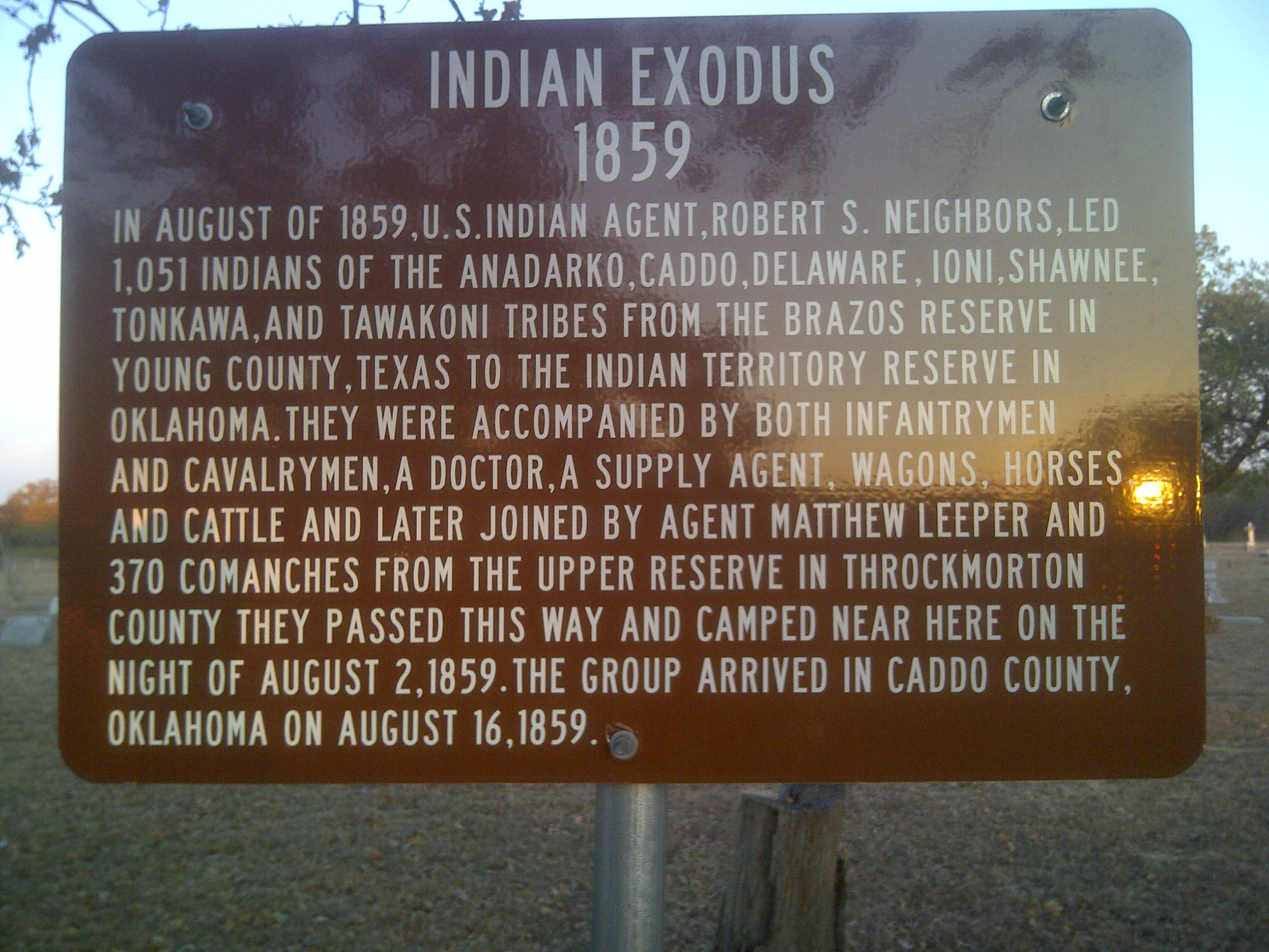 Markley, Texas Indian Sign.